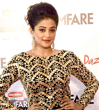 Priyamani at 62nd Filmfare Awards South red carpet in 2015